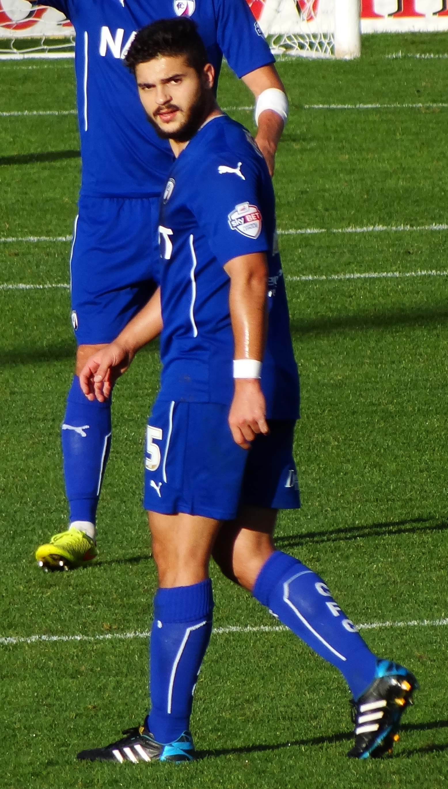 Sam Mursi playing for Chesterfield in a League One match against Walsall on 25 October 2014.